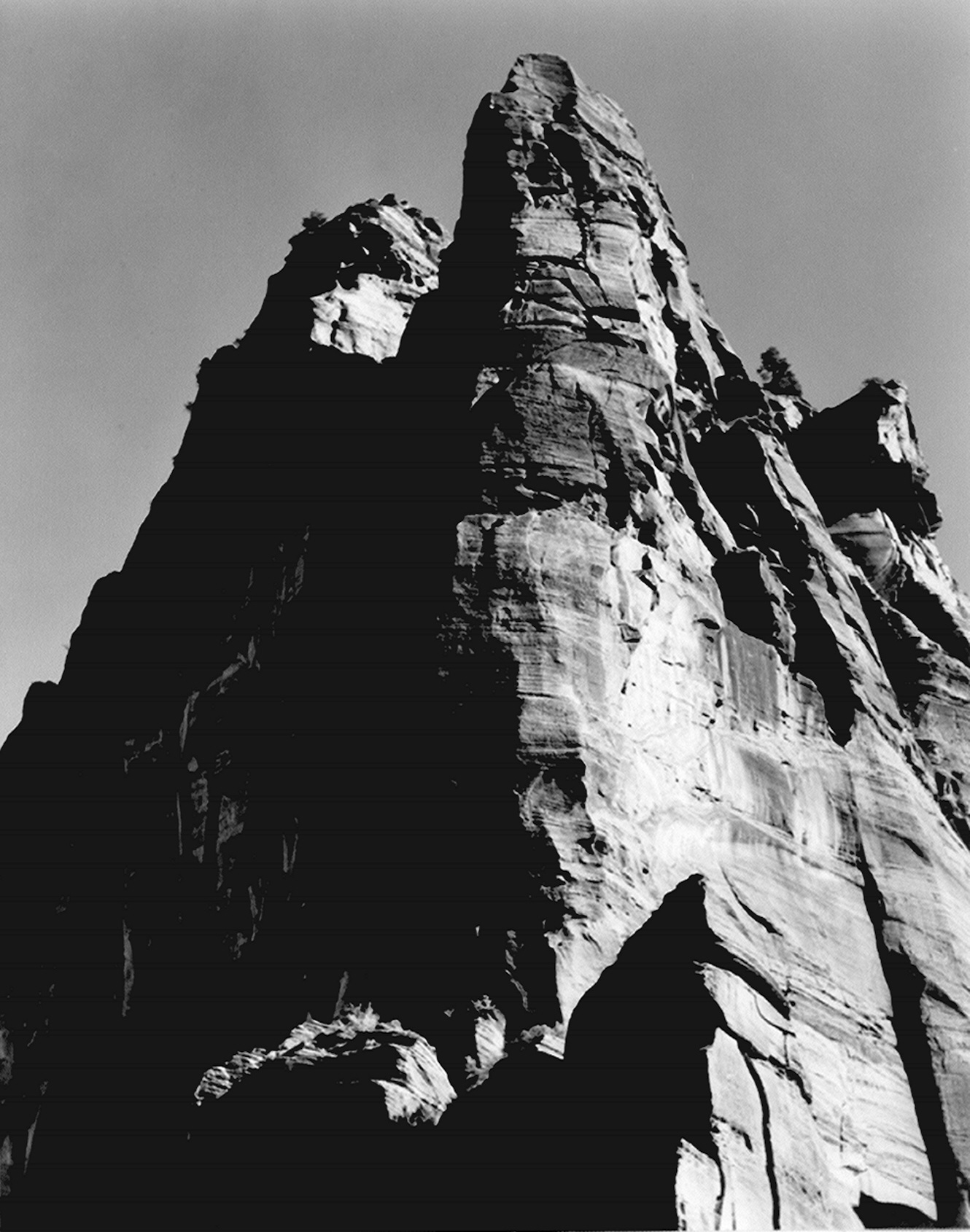 Ansel Adams, c.1941, 79-AAV-3 "In Zion National Park," vertical of rock formation, from below. In 1941 the National Park Service commissioned noted photographer Ansel Adams to create a photo mural for the Department of the Interior Building in Washington, DC. The theme was to be nature as exemplified and protected in the U.S. National Parks. The project was halted because of World War II and never resumed.